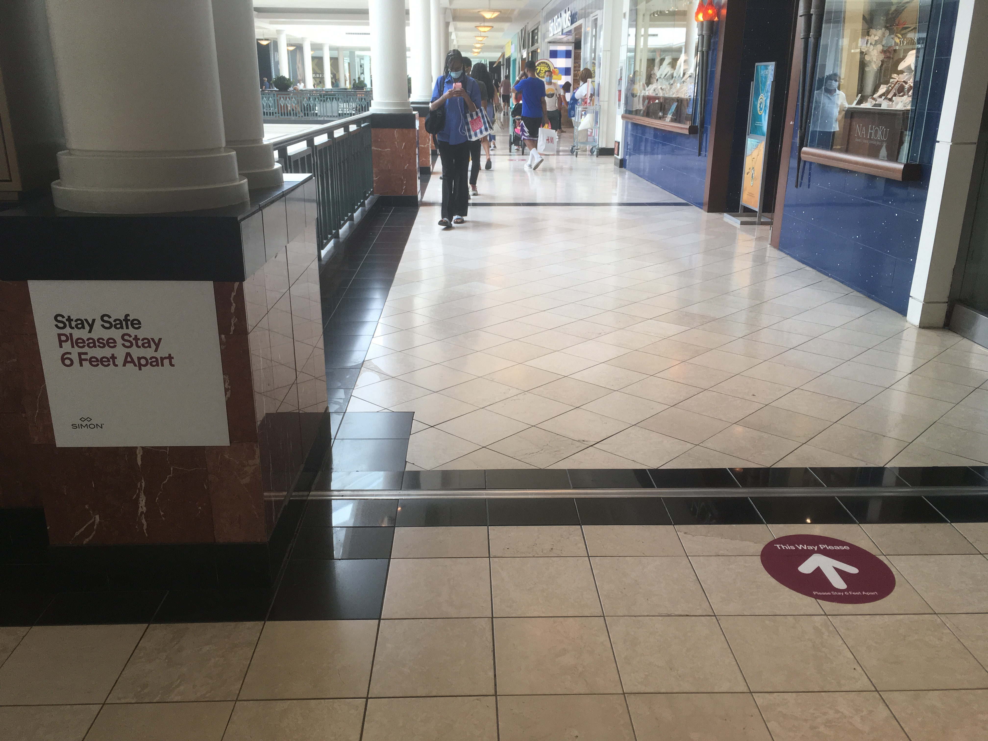 The King of Prussia Mall in King of Prussia, Pennsylvania, with floor decals and signs promoting one-way traffic and social distancing during the COVID-19 pandemic